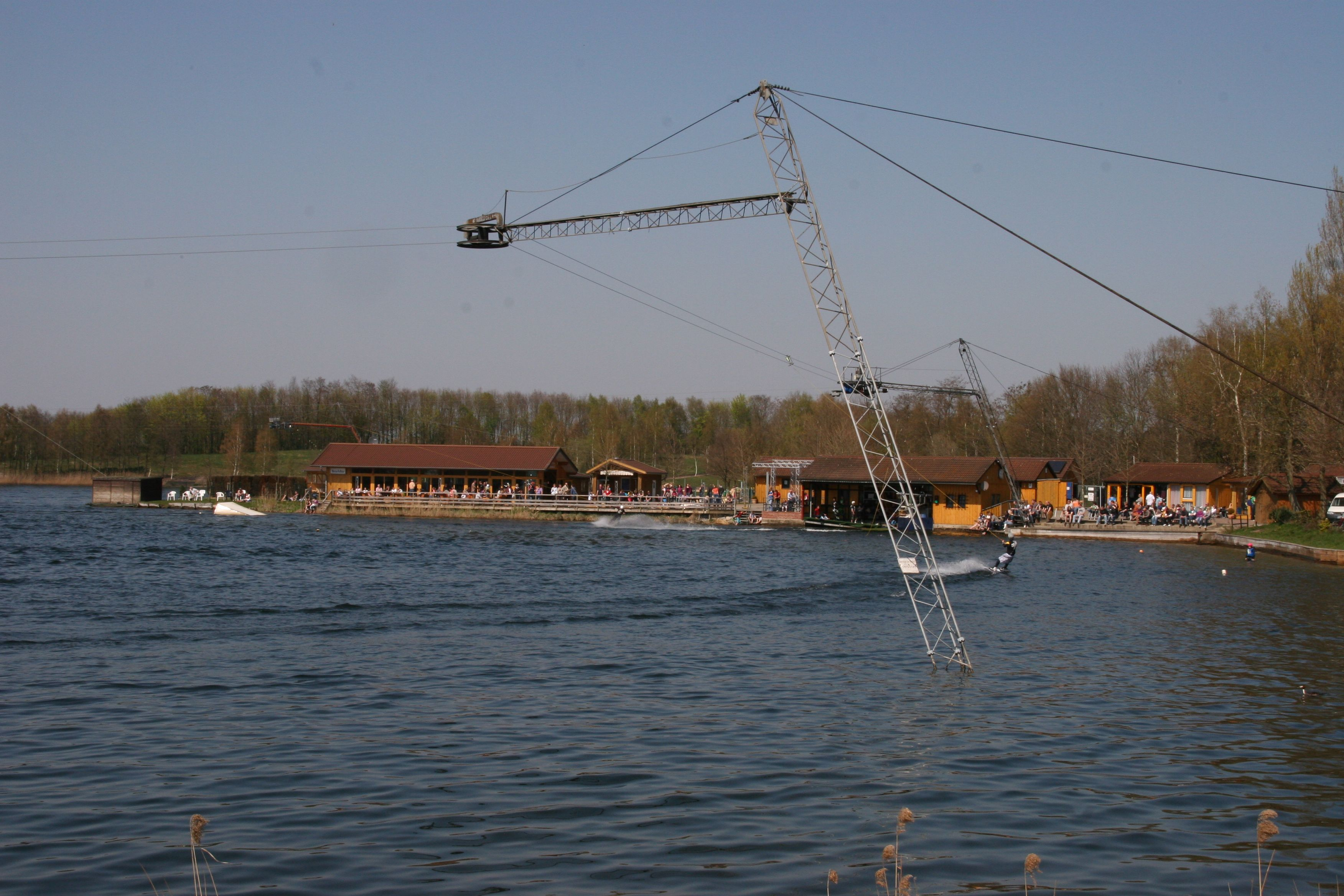 Rieste: waterskiing centre Alfsee